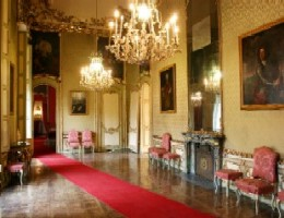 Picture of the hall of the Palazzo Chiablise, Turin